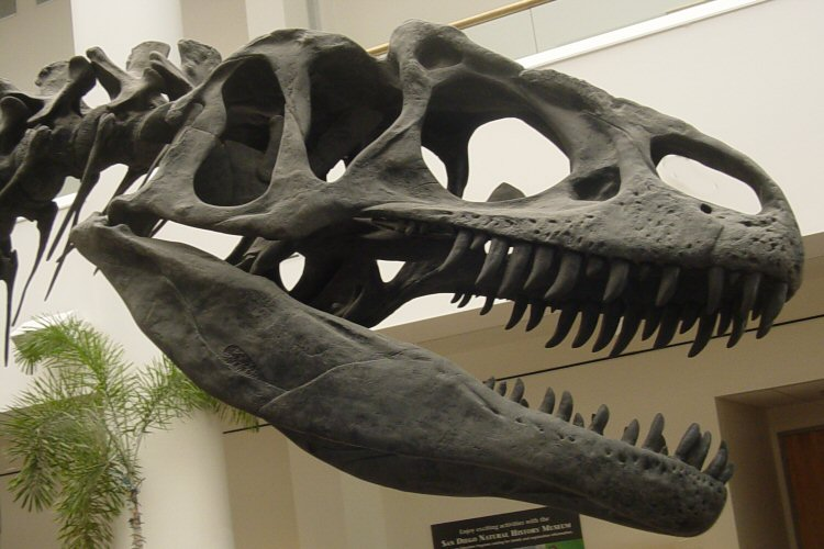 Skull of the Allosaurus fragilis skeleton mounted in the lobby of the San Diego Natural History Museum. Digital picture taken by me in May of 2006. Image is unconditionally released into the public domain. asd